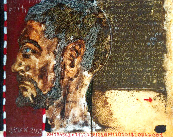 Jakab Elek Selfportrait Title: REGISTRY LEFT oil on canvas, 40x50 cm, 2003